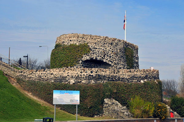 Ross Castle, Cleethorpes, after renovation April 2008.